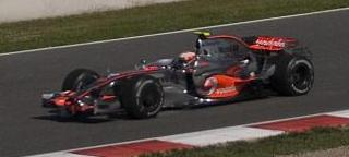 Heikki Kovalainen driving for McLaren at the 2008 Spanish Grand Prix.